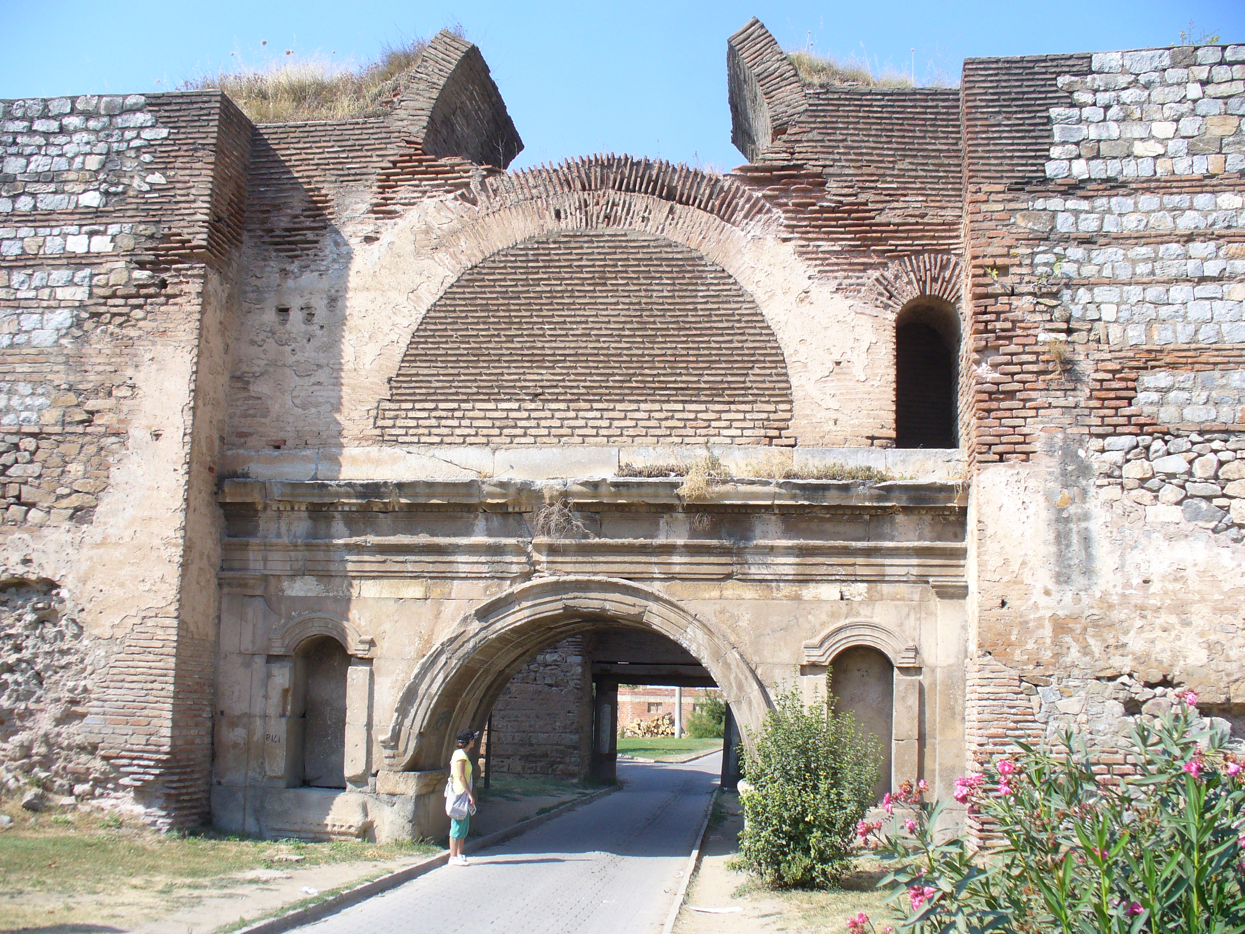 The Istanbul Gate in Iznik, along the northern ramparts.